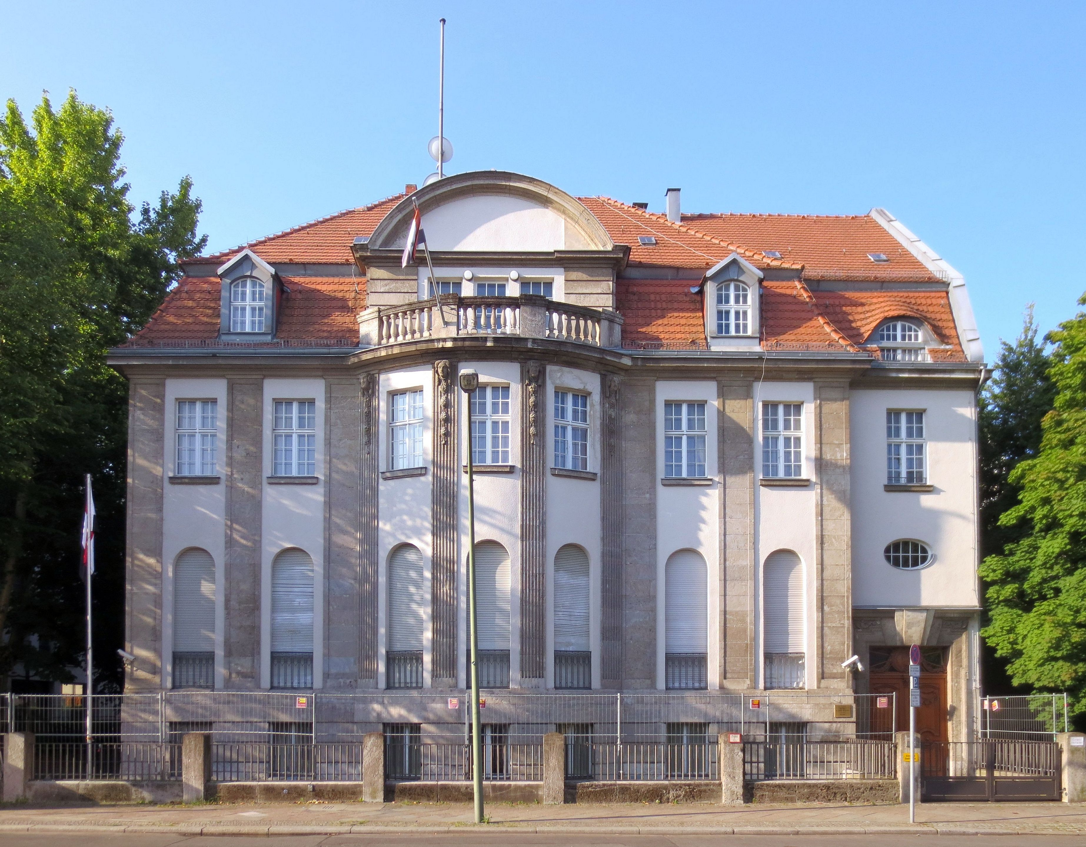 The Syrian Embassy at Rauchstraße No. 25 in Berlin-Tiergarten. The urban villa was builtin 1912 to a design by Georg A. Rathenau and Friedrich August Hartmann. The building has been designated as a cultural heritage monument.